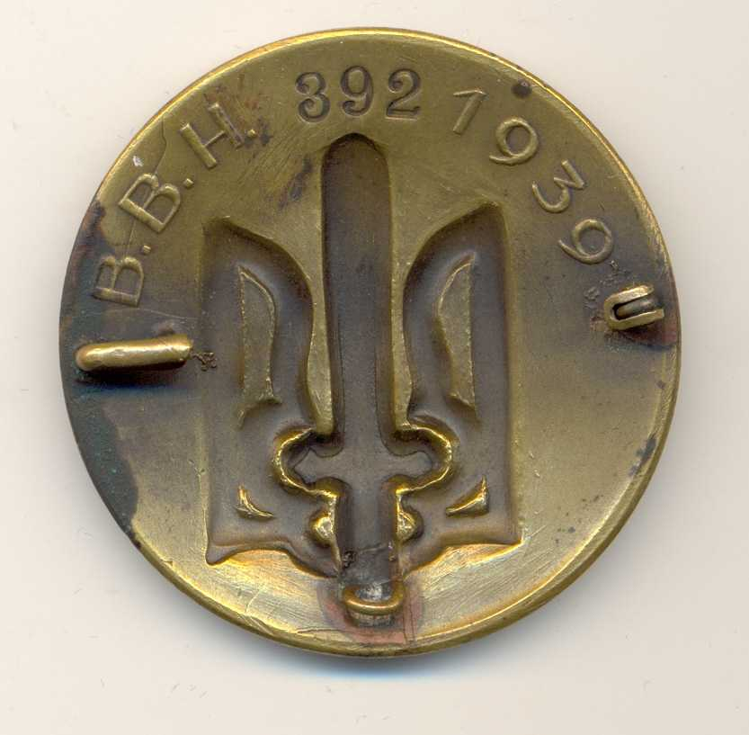 Rear side of badge of "Military Groups of Nationalsts" (ua "Військові відділи націоналістів", deutsch "Bergbauernhilfe") - military units in the Wehrmacht, operating in Poland in 1931-1941 (during WWII)